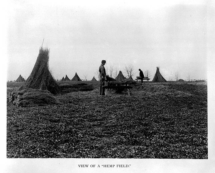 Hemp Field Fayette County KY